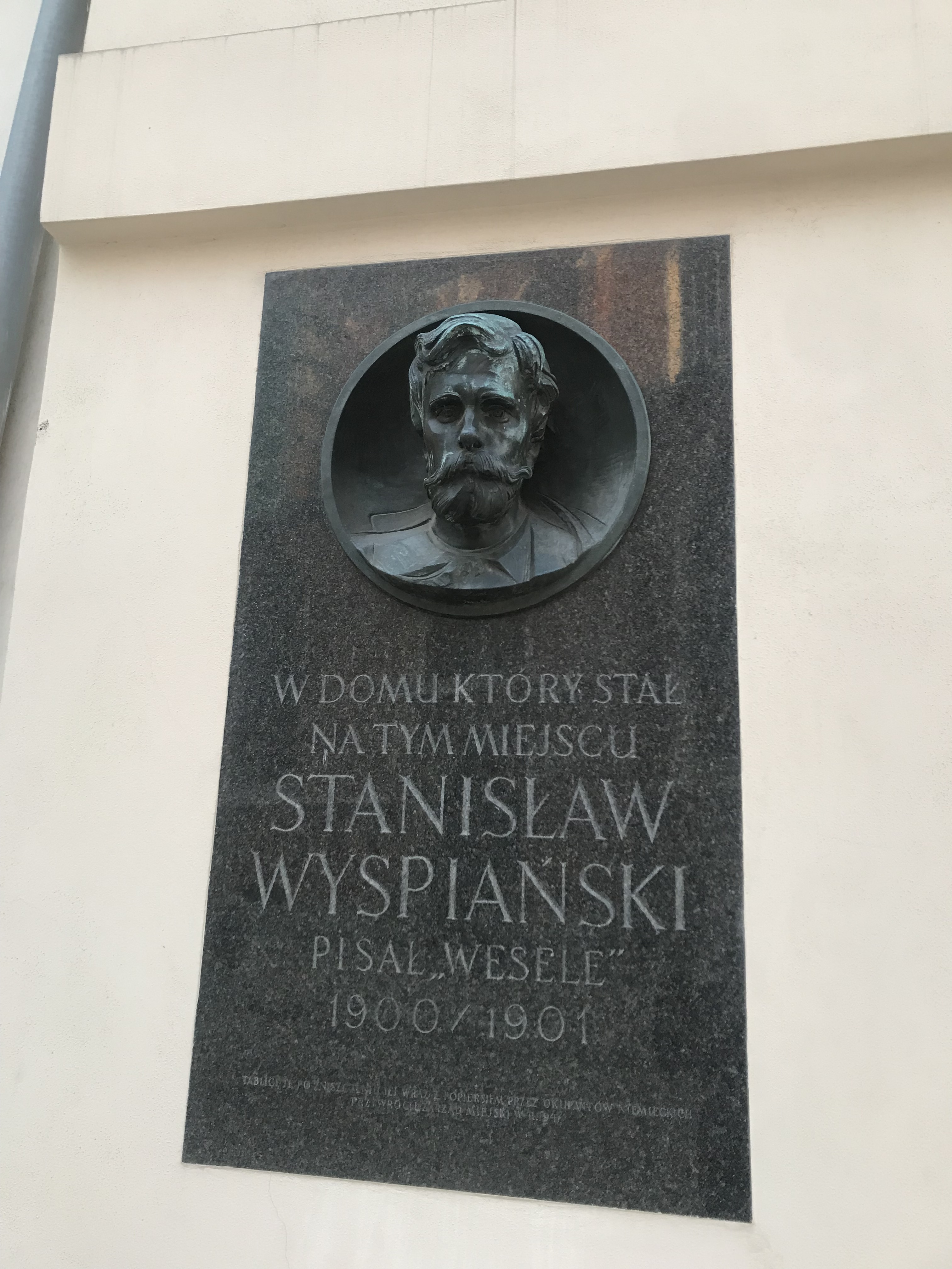 Stanislaw Wyspianski plaque in Krakow, Poland 07OCT 19